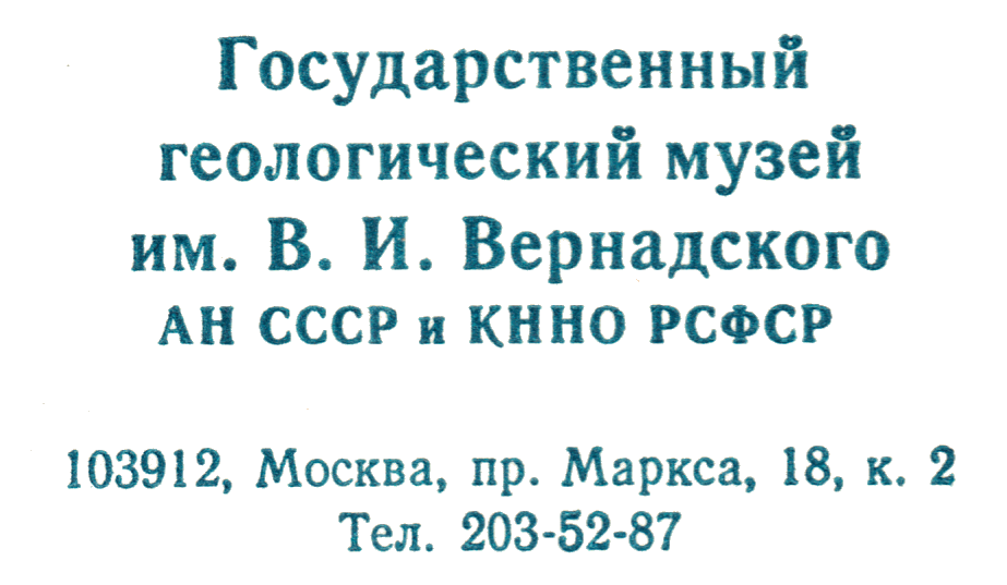 USSR Geologival Museum